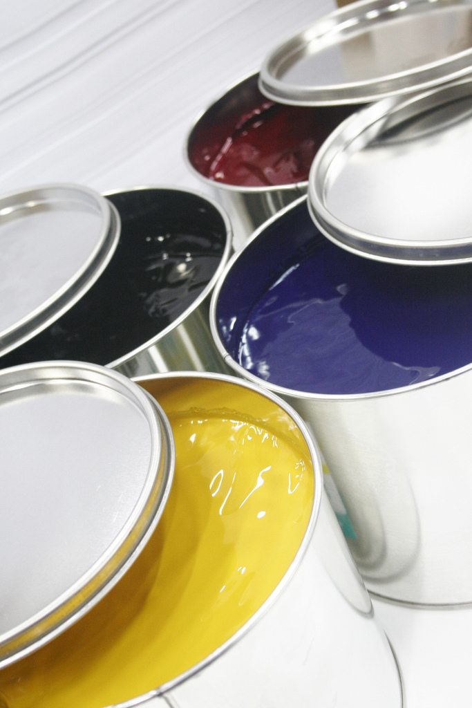 CMYK Process Ink